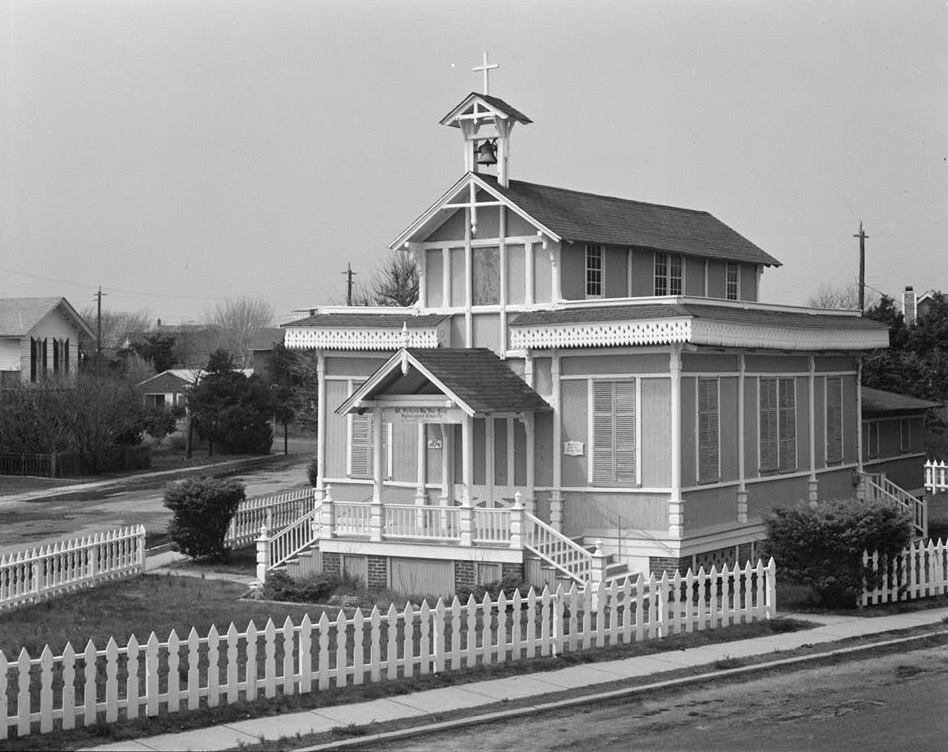 St. Peters-by-the-Sea in Cape May Point New Jersey (cropped version of our file PERSPECTIVE VIEW OF EAST FRONT AND NORTH SIDE LOOKING SOUTHWEST - St. Peter's by the Sea Episcopal Church, Ocean Avenue at Lake Avenue, Cape May Point, Cape May County, NJ HABS NJ,5-CAPMAP,5-2.tif